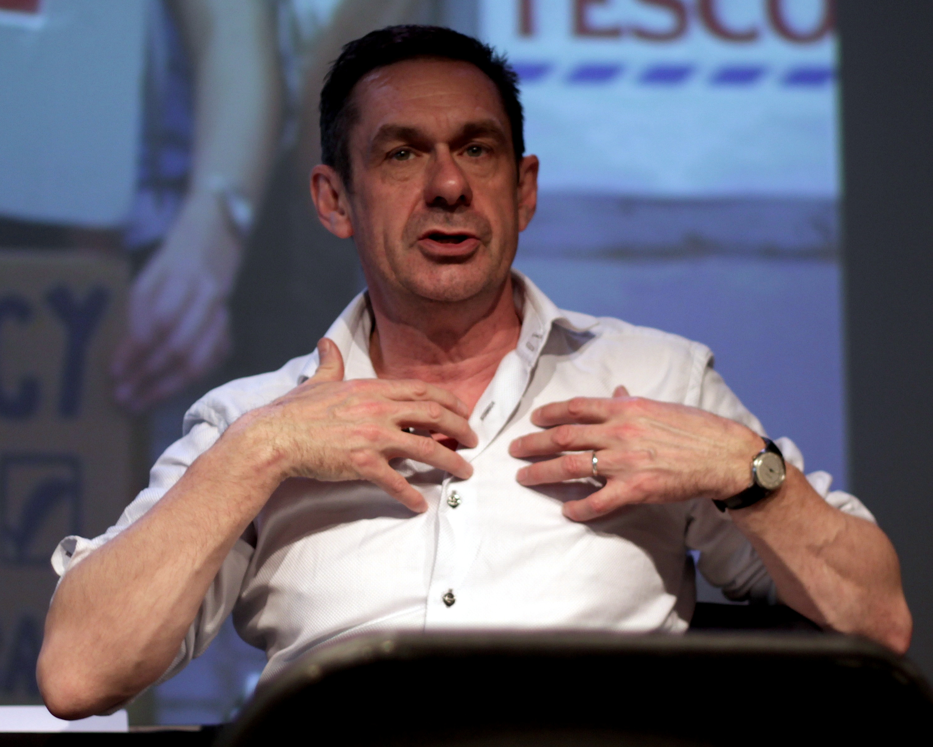 Paul Mason at Take back our world! - Global Justice Now